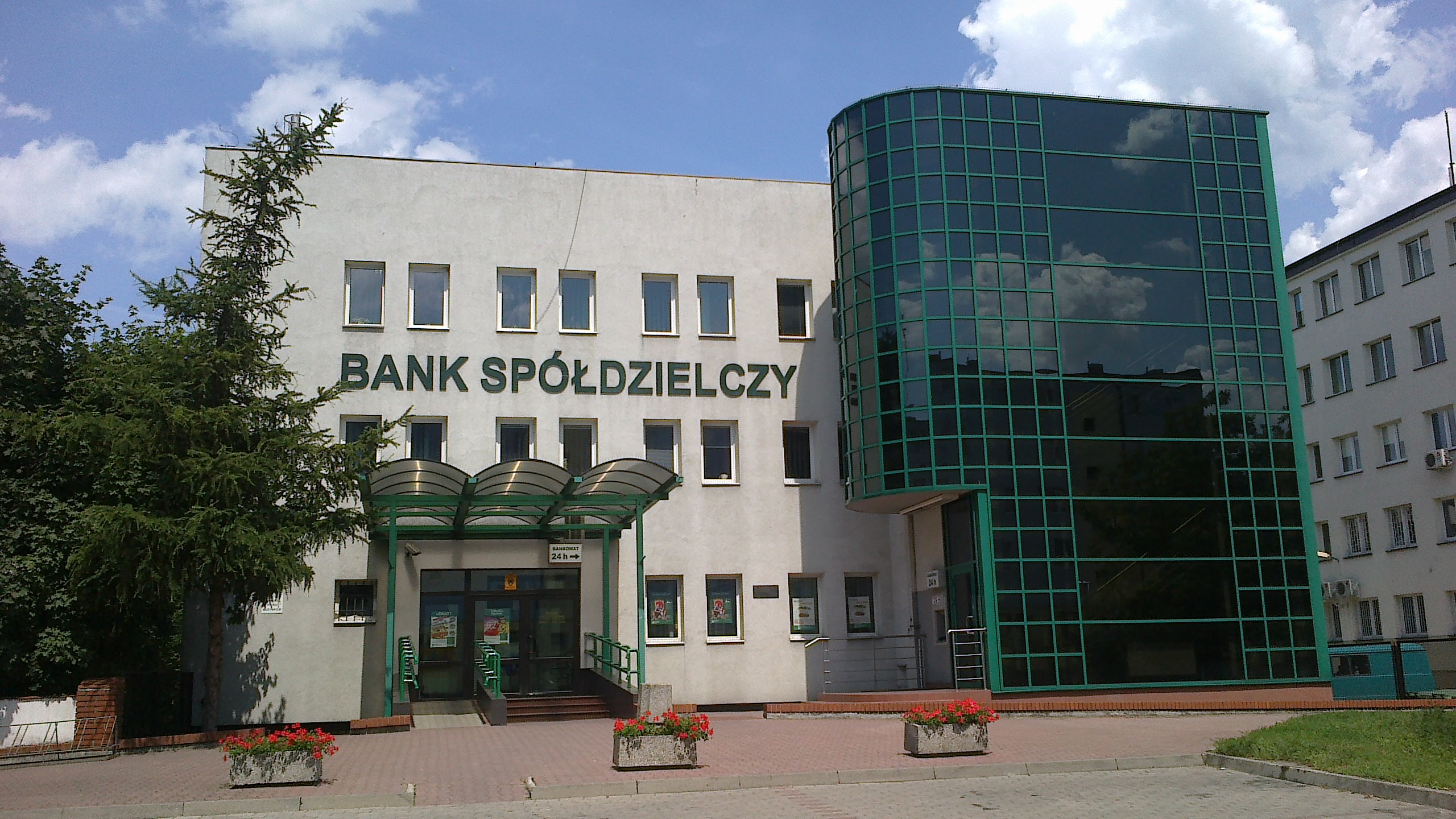 Cooperative Bank in Skierniewice